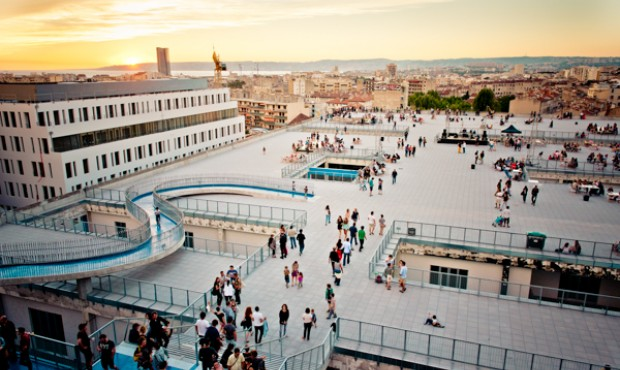 Friche la Belle de Mai Rooftop. From june to september, party take place every friday and saturday on the rooftop. Sunday evenings are dedicated to open air cinema projections